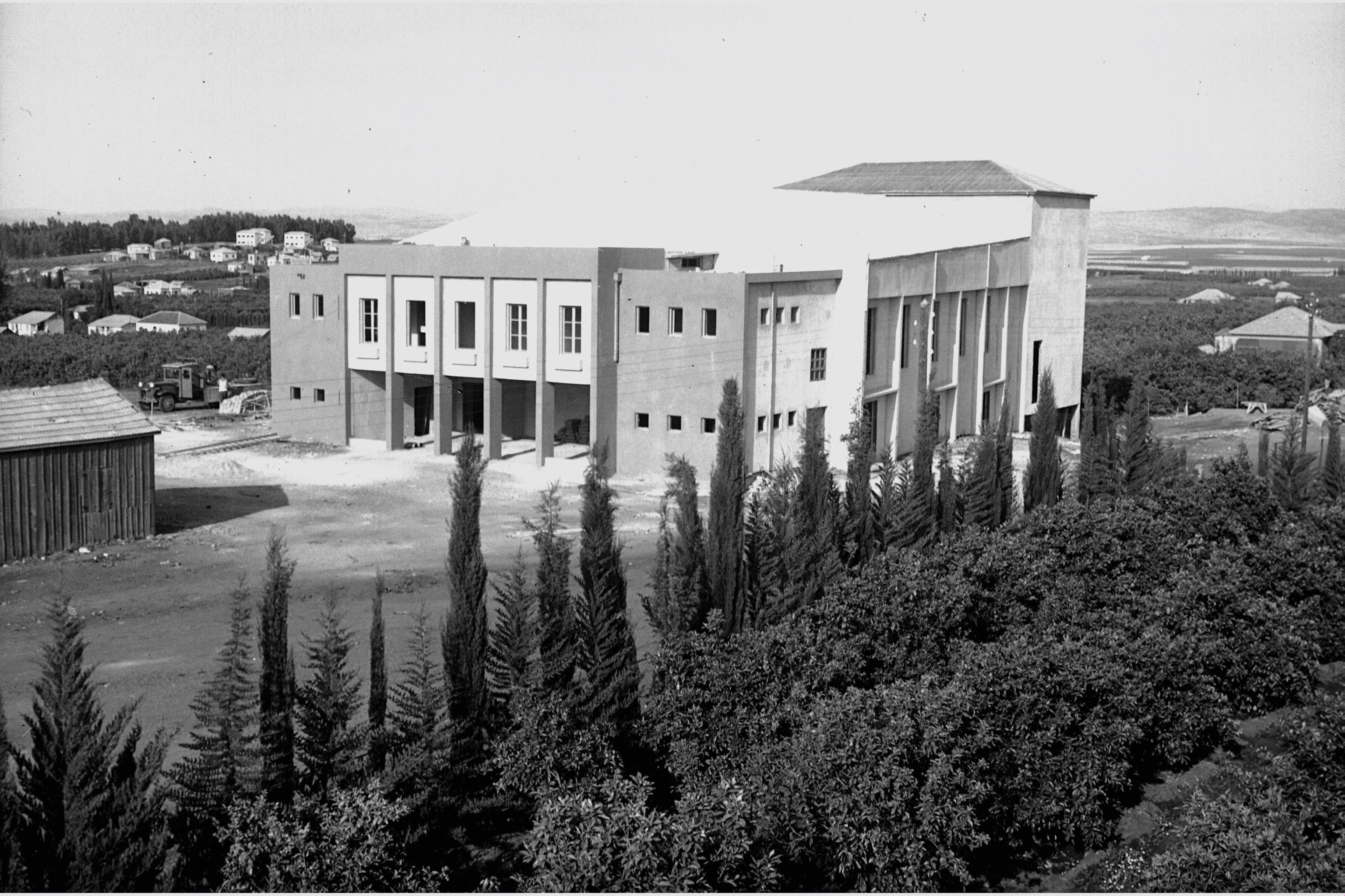 Kfar saba, Architecture of Israel